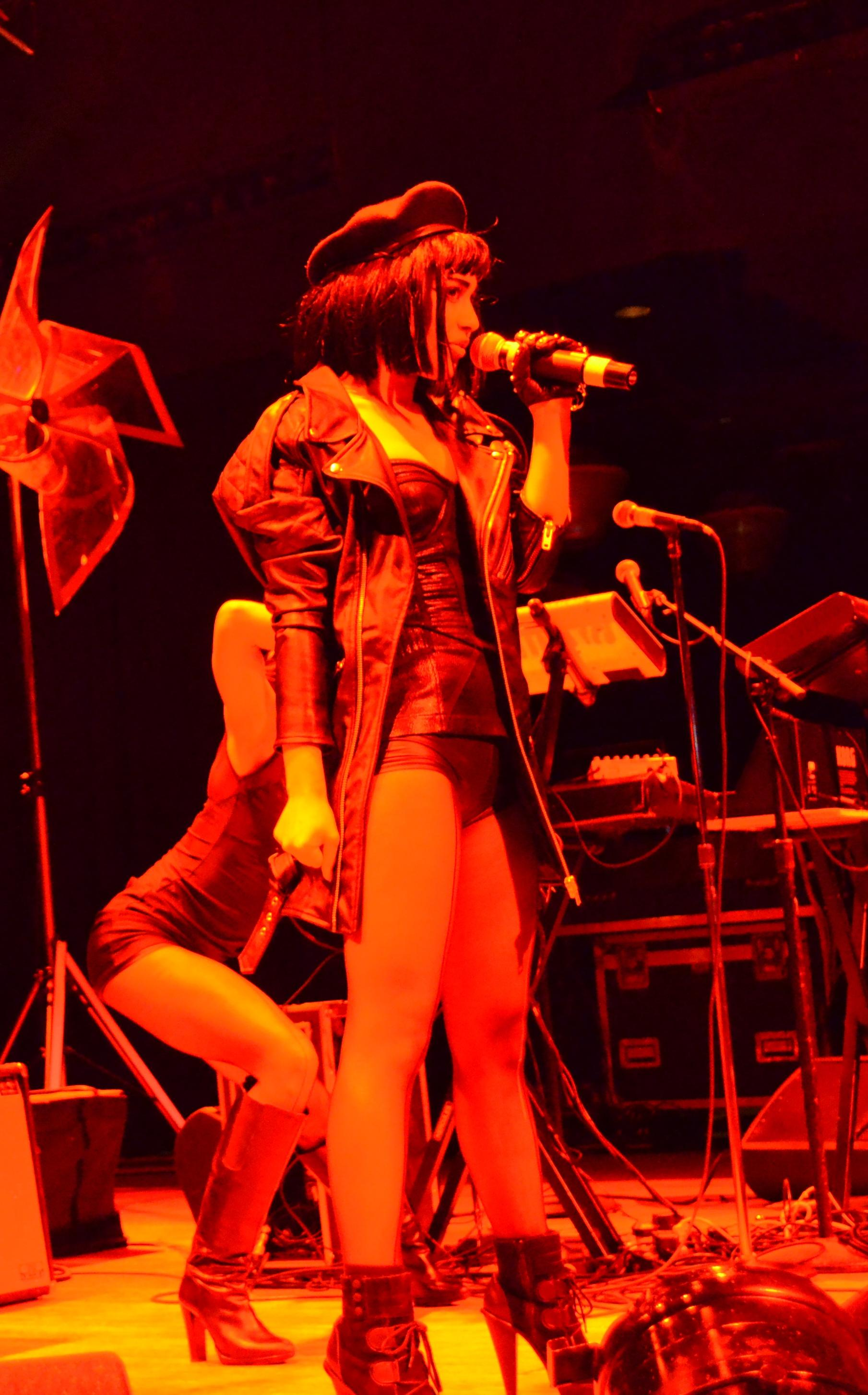 Natalia Kills performing "Wonderland" and opening for Robyn at the House of Blues in Cleveland, OH.